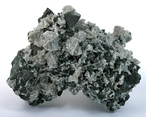 Tennantite, Dolomite Locality: Tsumeb Mine (Tsumcorp Mine), Tsumeb, Otjikoto (Oshikoto) Region, Namibia (Locality at ) Size: 12.8 x 9.4 x 6.3 cm. Sharp, tetrahedral tennantite crystals are aesthetically scattered on 3-dimensional, vuggy, massive tennantite CABINET matrix, that is richly covered with waxy-lustre, gray, saddle-shaped dolomite rhombs on this impressive combination specimen from the famous and now-closed Tsumeb Mine. The moderate-lustre, textbook-shaped tennantite crystals reach 1.2 cm on this showy and excellent specimen from the Rob Smith Collection.